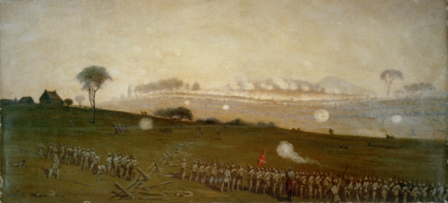 Picketts charge from a position on the enemys line looking toward the Union lines, Zieglers grove on the left, clump of trees on right